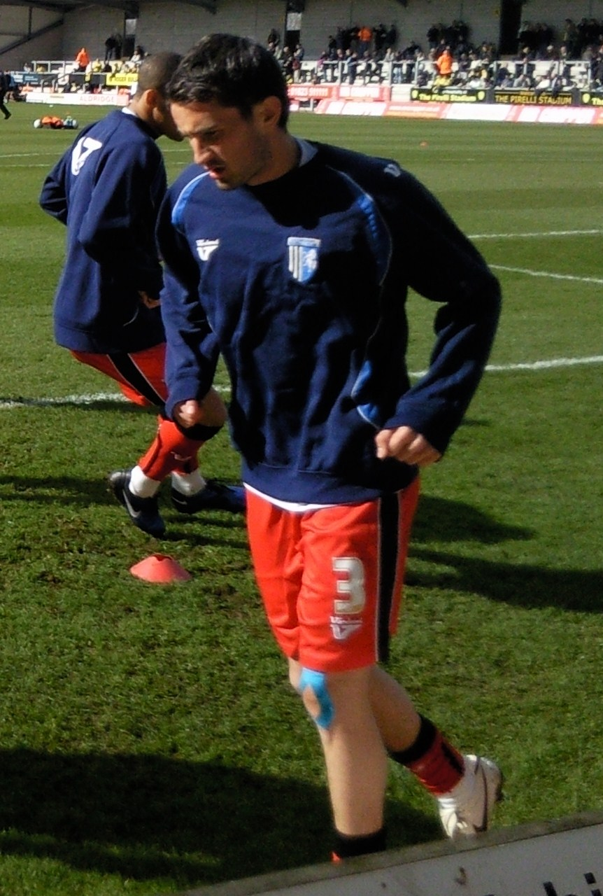 John Nutter photographed on 19/3/11. I took the picture myself.